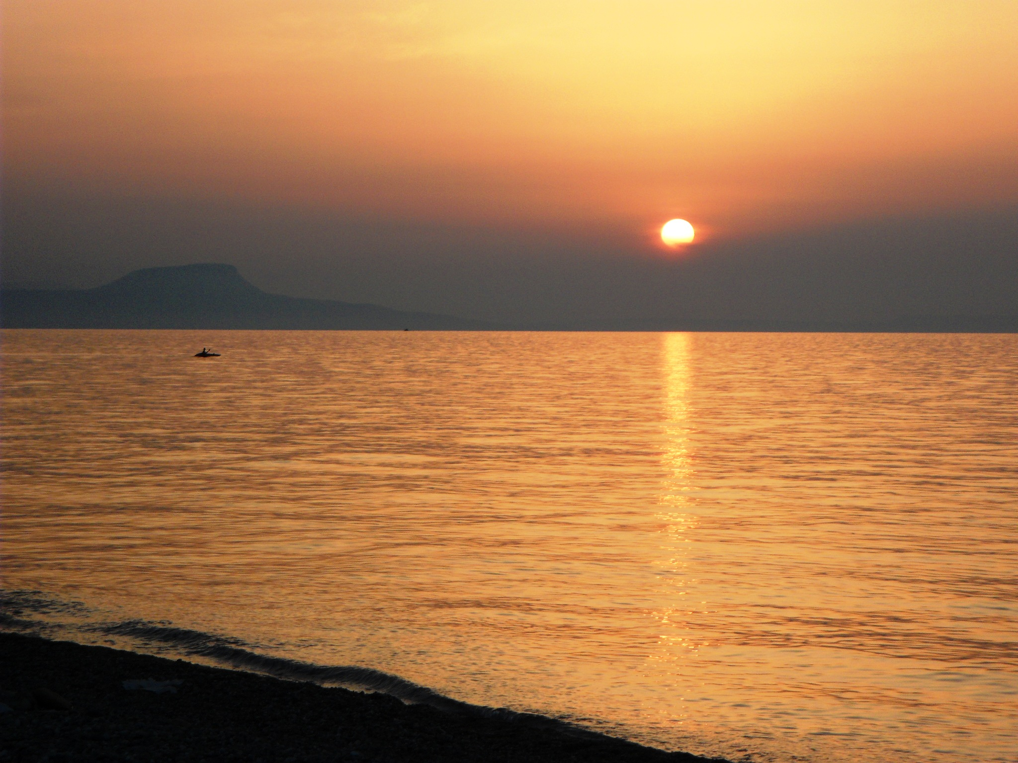 Sunset in Crete near Retyhmnos